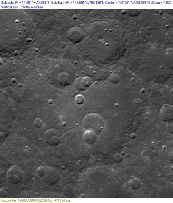 Birkhoff crater -Aerial view of the basin using LTVT on a Clementine view